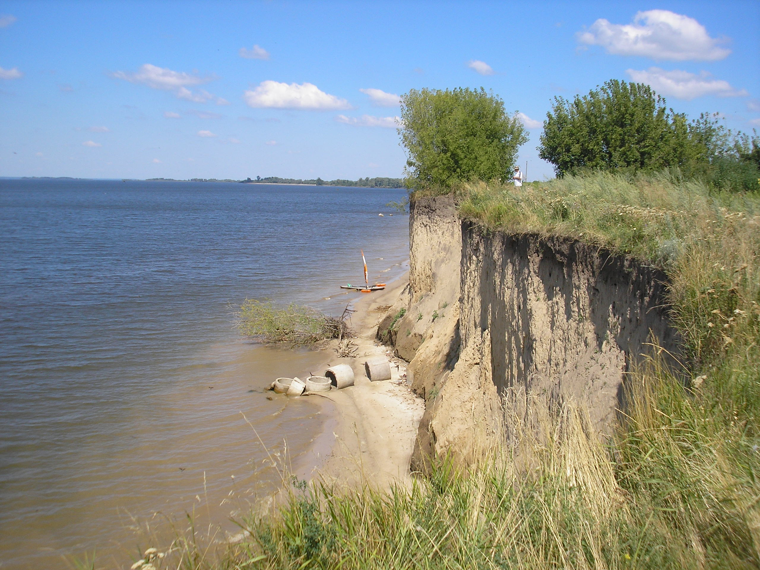 Soil erosion